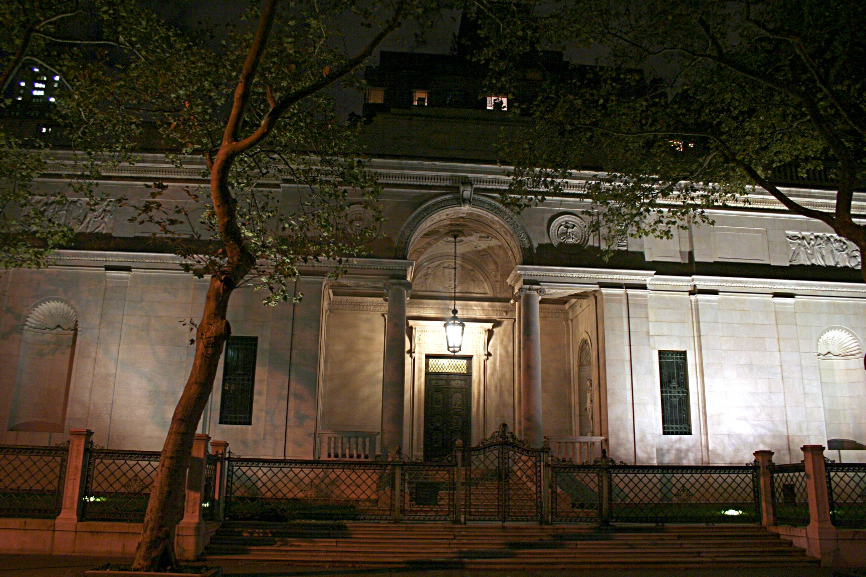 Photograph of the Pierpont Morgan Library in Manhattan, New York, USA at night